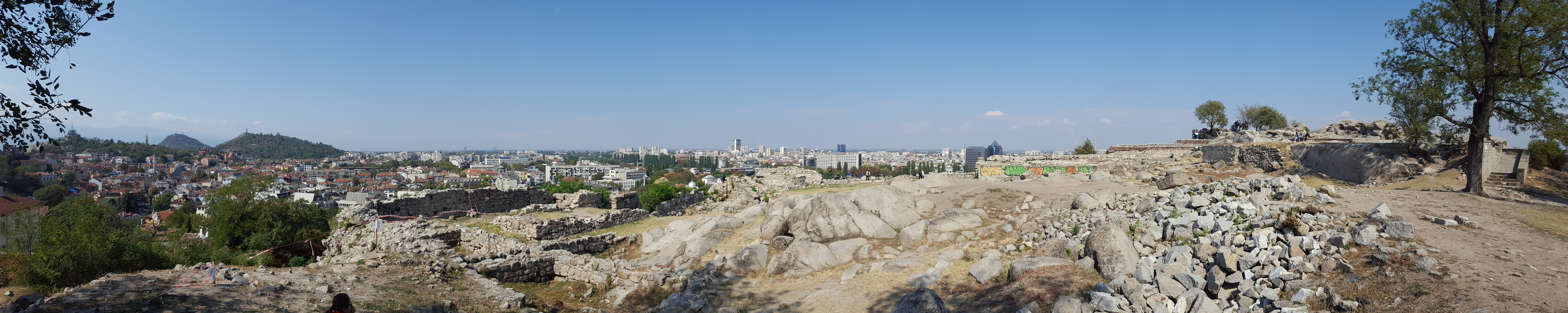 View from Nebet tepe